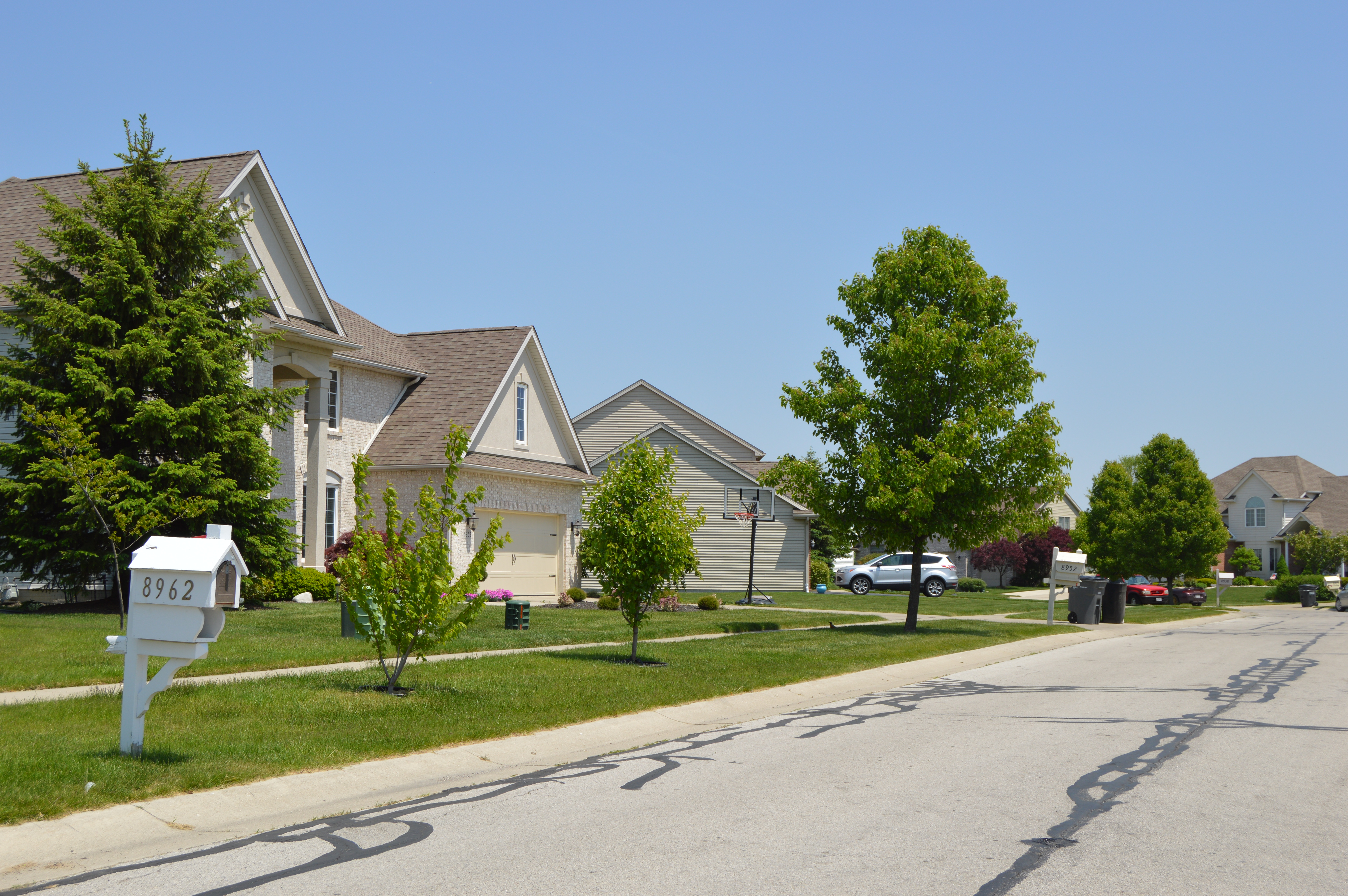 Houses on White Eagle in northern Sylvania Township, Lucas County, Ohio, United States.